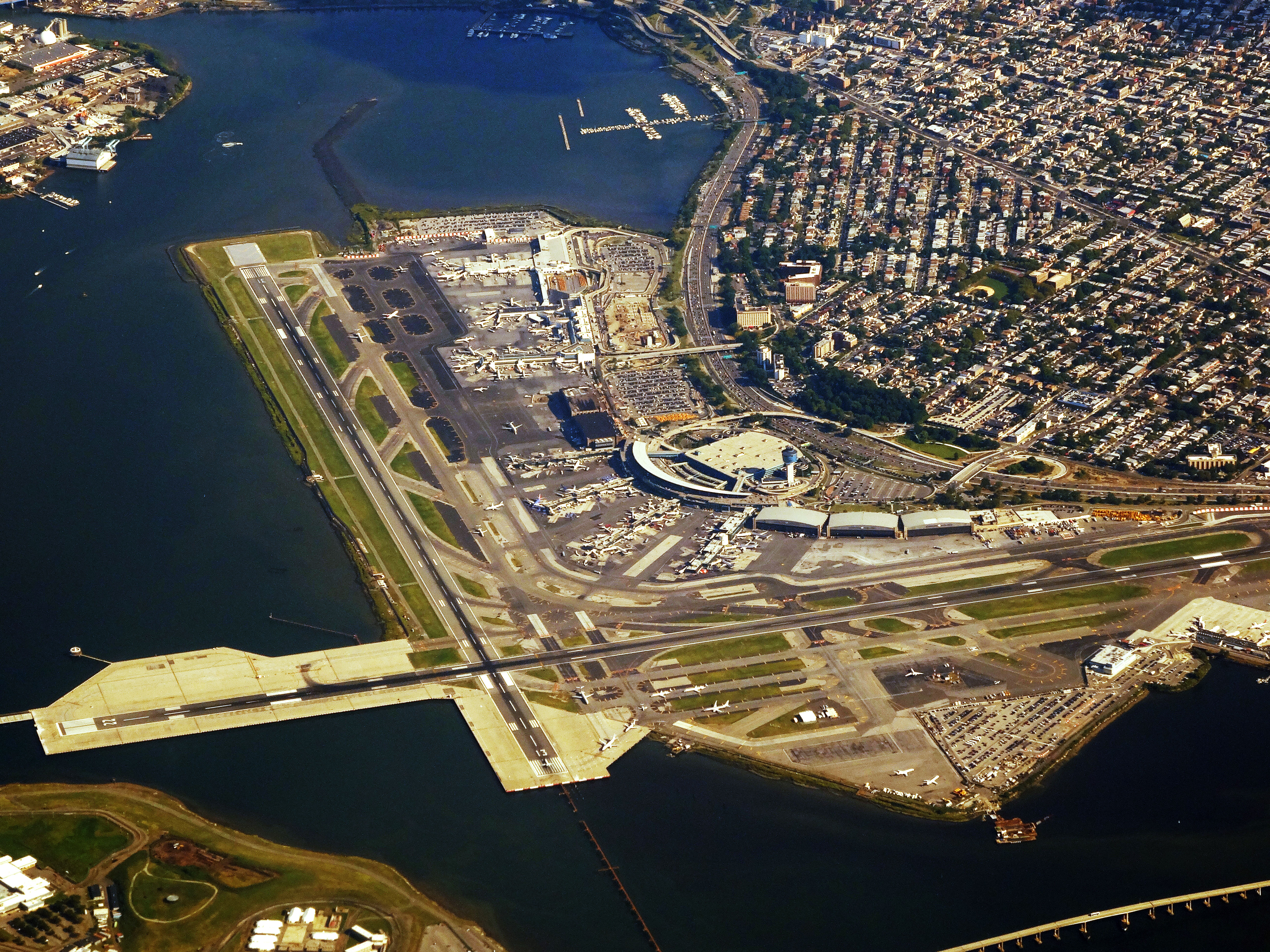 Aerial Photo of LaGuardia Airport